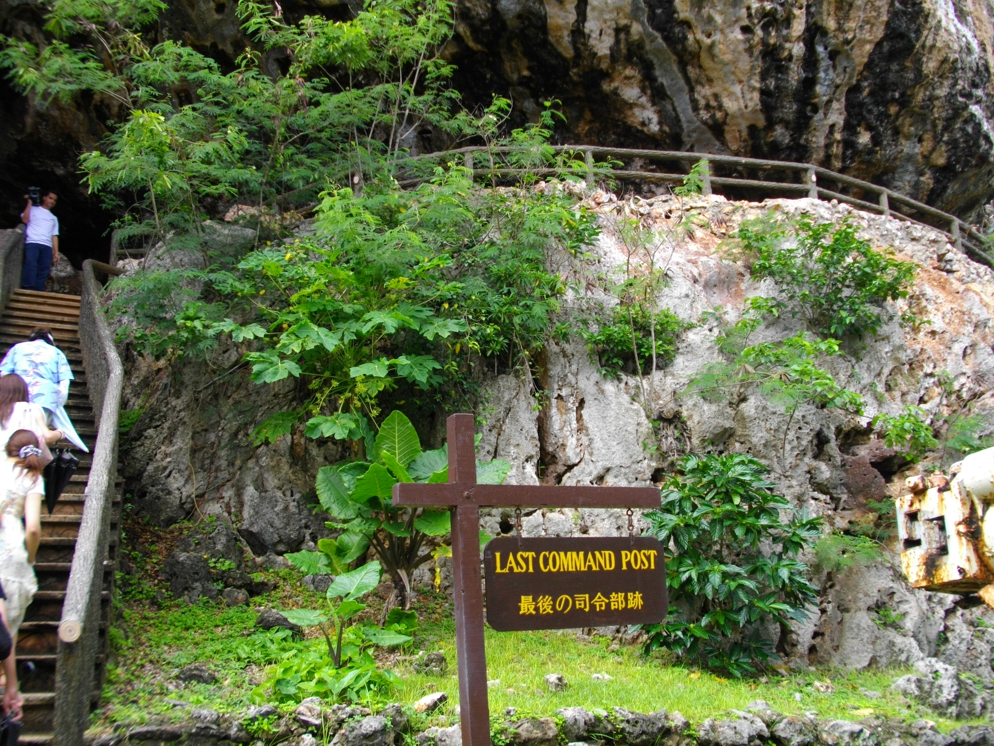 Last Command Post in Saipan